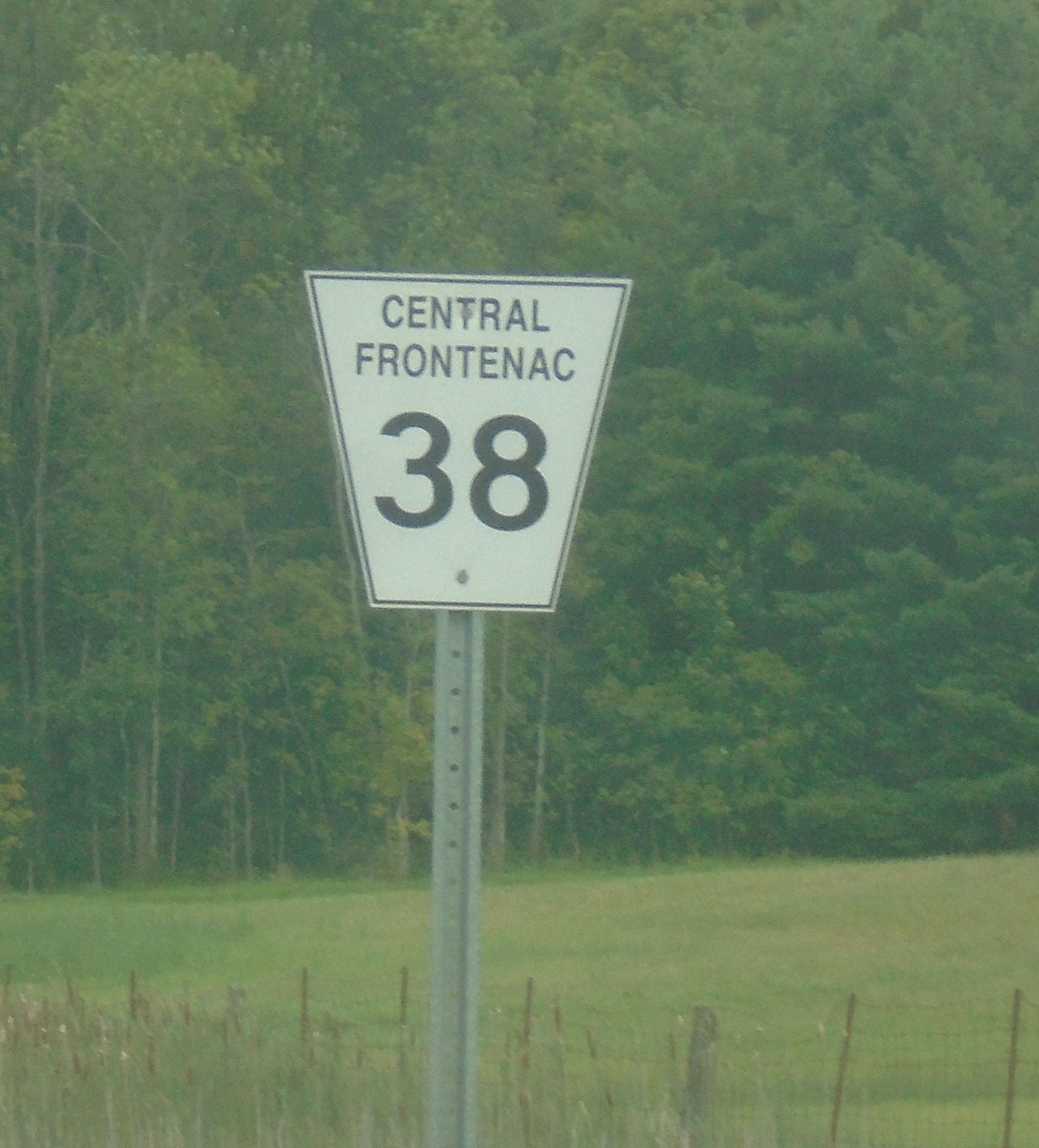 This is a photograph of a township highway marker of Township Road 38 in Central Frontenac Township, Frontenac County, Ontario.